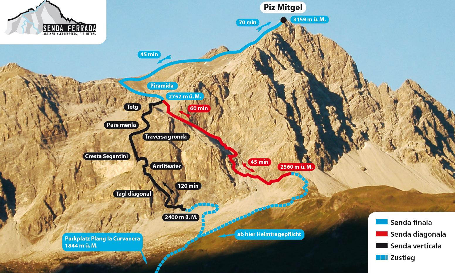 Senda Ferrada, alpine fixed rope route, Piz Mitgel, Savognin, Grisons, Switzerland